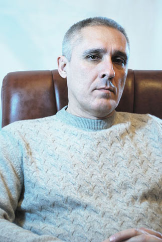 Cameos-carver Sviatoslav Nikitenko